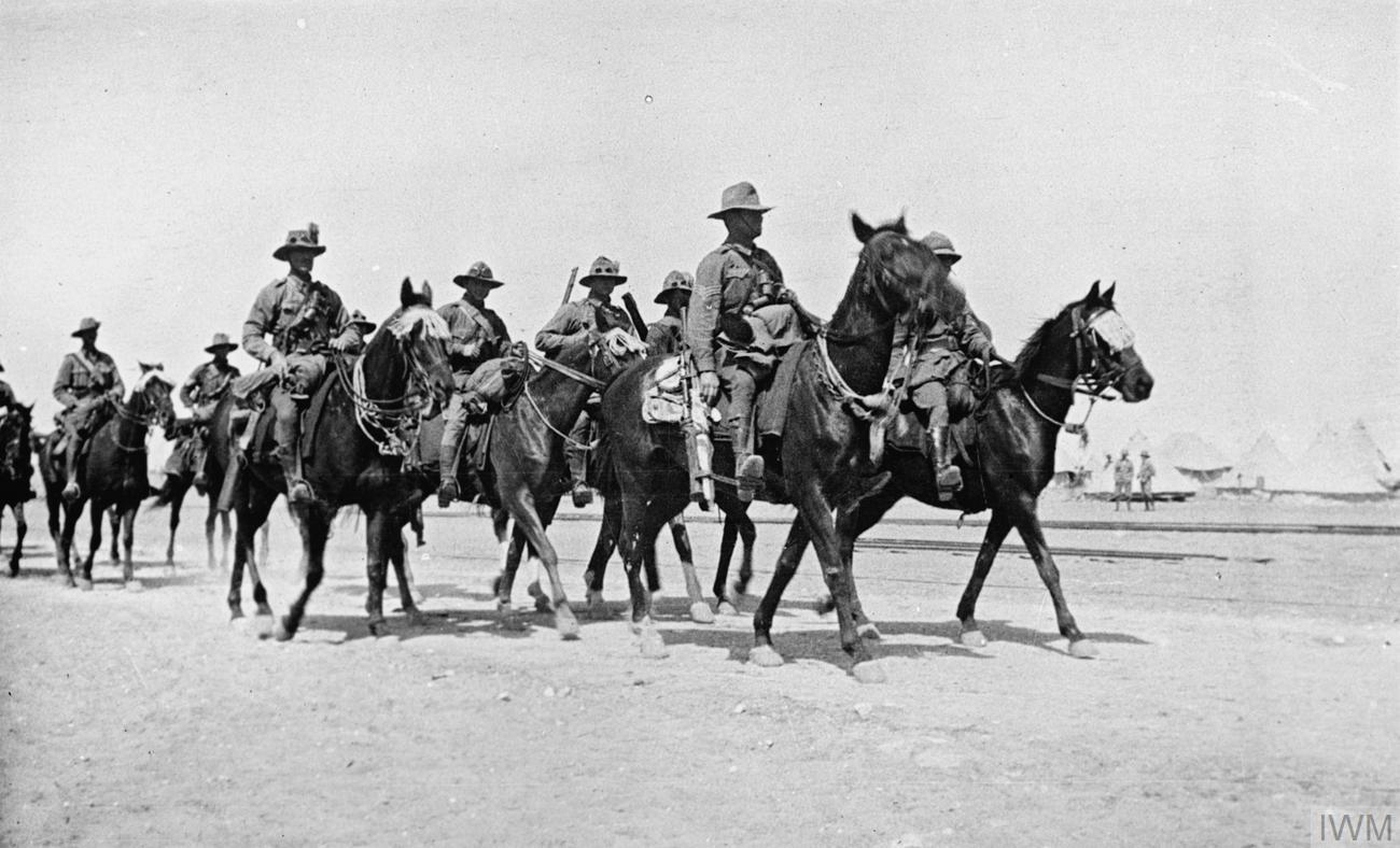 Australian Light Horse. Alexandria, early 1916.